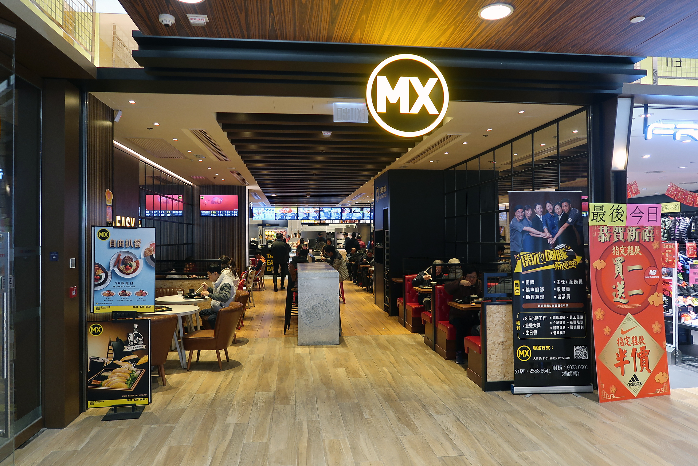 MX in Paradise Mall